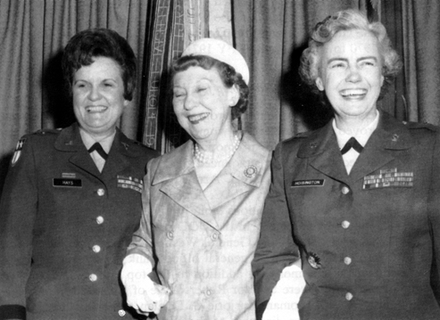 Brig. Gen. Anna Mae Hays, Chief of the Army Nurse Corps (left), and Brig. Gen. Elizabeth P. Hoisington, Director, WAC (right), with Mrs. Dwight D. Eisenhower on their promotion day